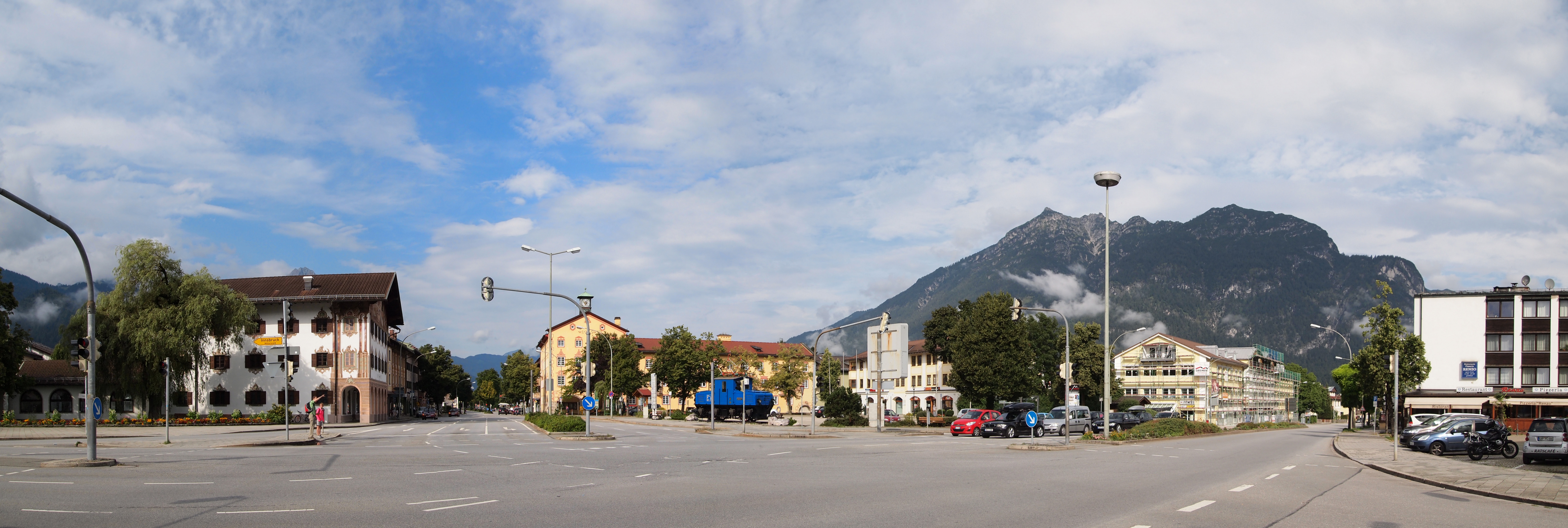 Garmisch-Partenkirchen. This photograph was taken with an Olympus E-PL1